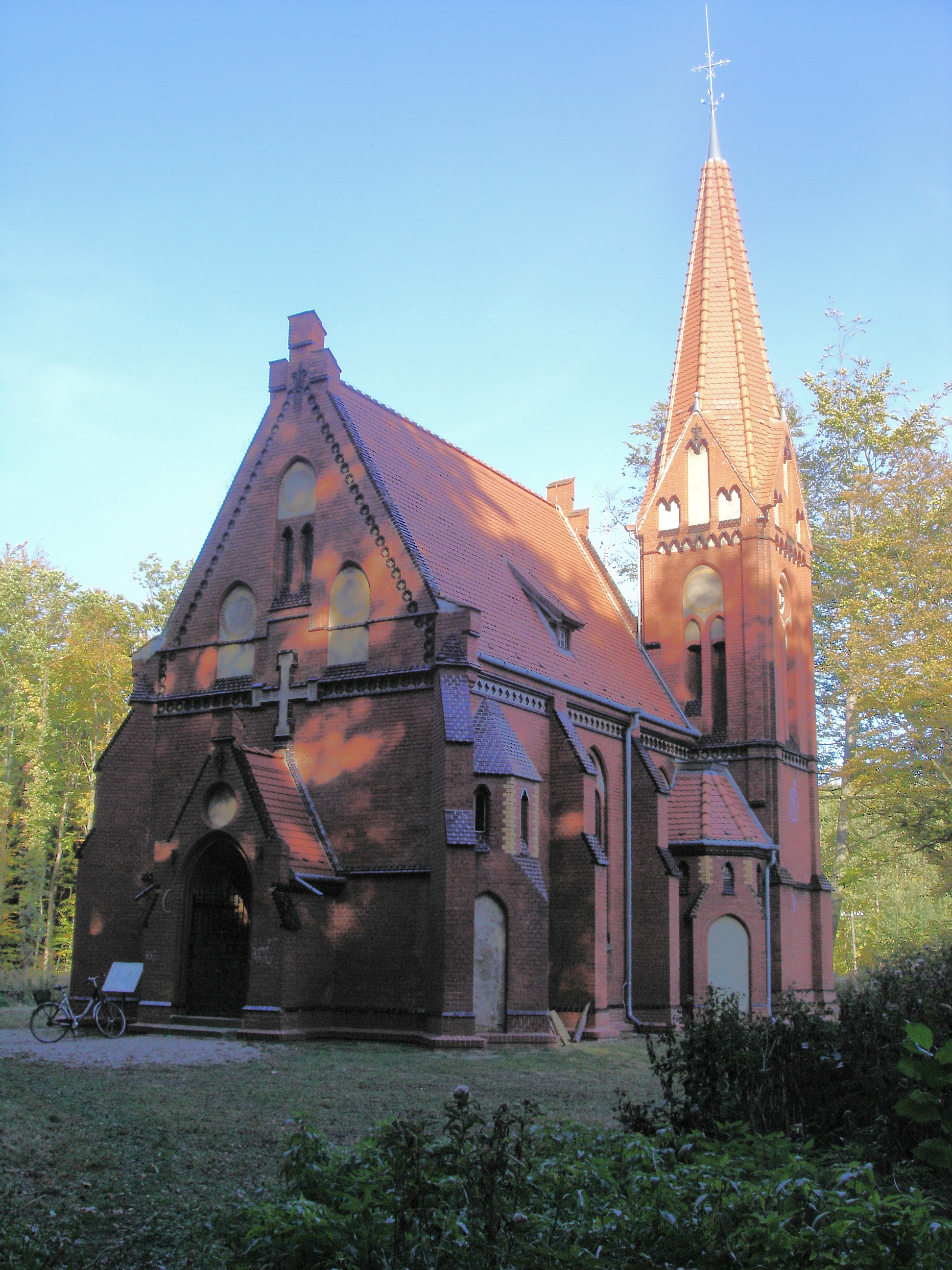 Protestant church in Heiligendamm, Mecklenburg, Germany